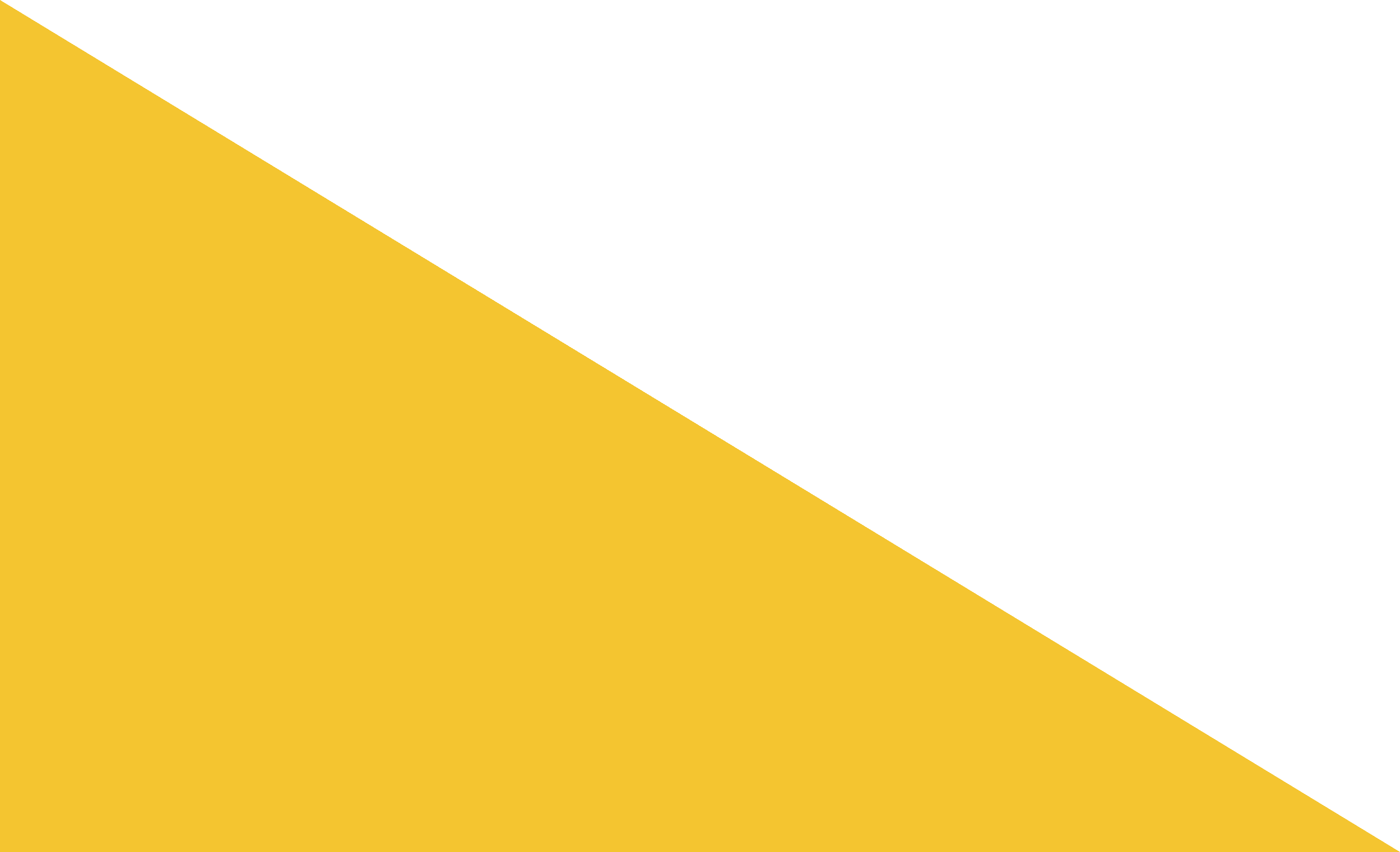 Sikh Basanti (yellow) flag as introduced by Guru Hargobind